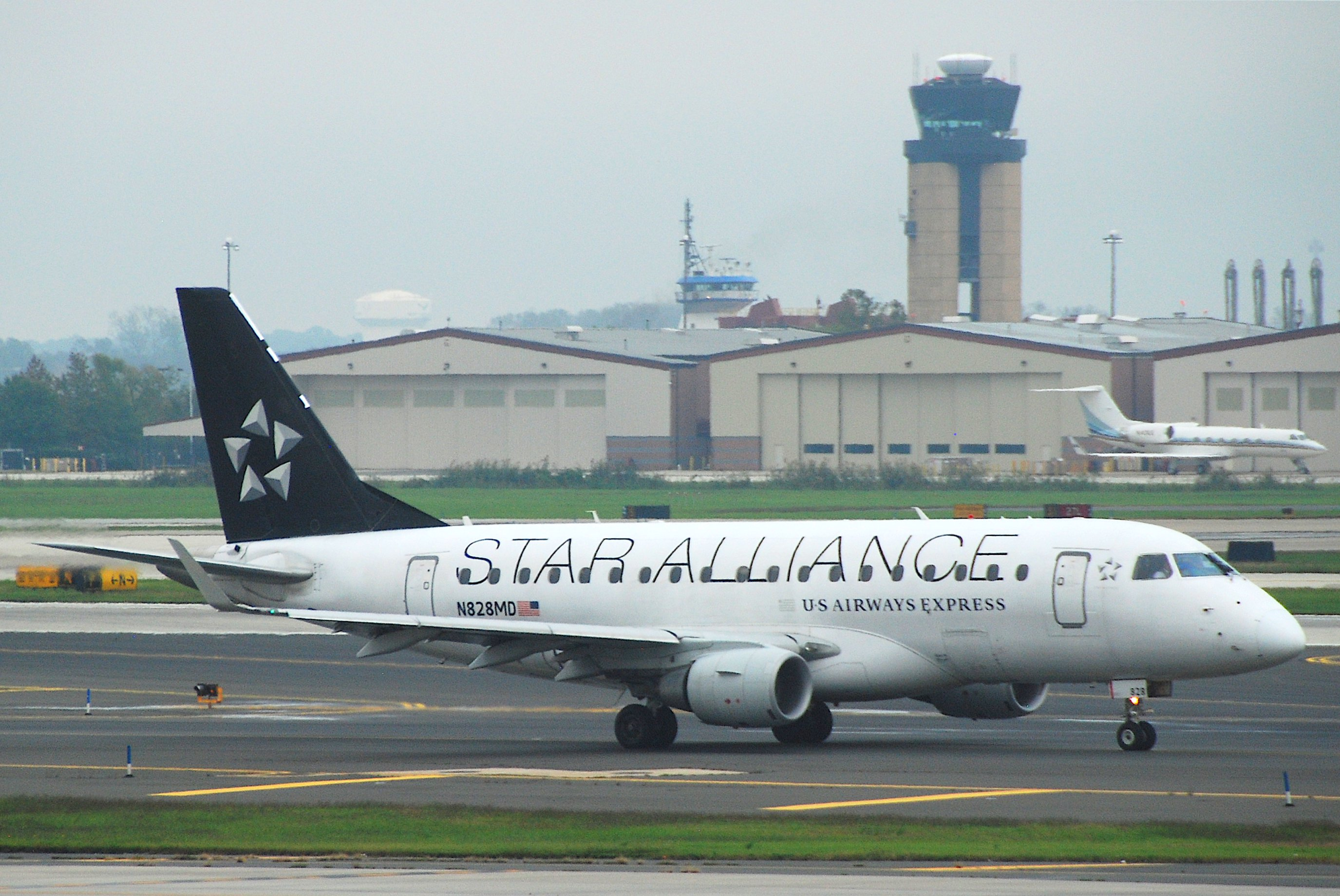 Star Alliance-colours...